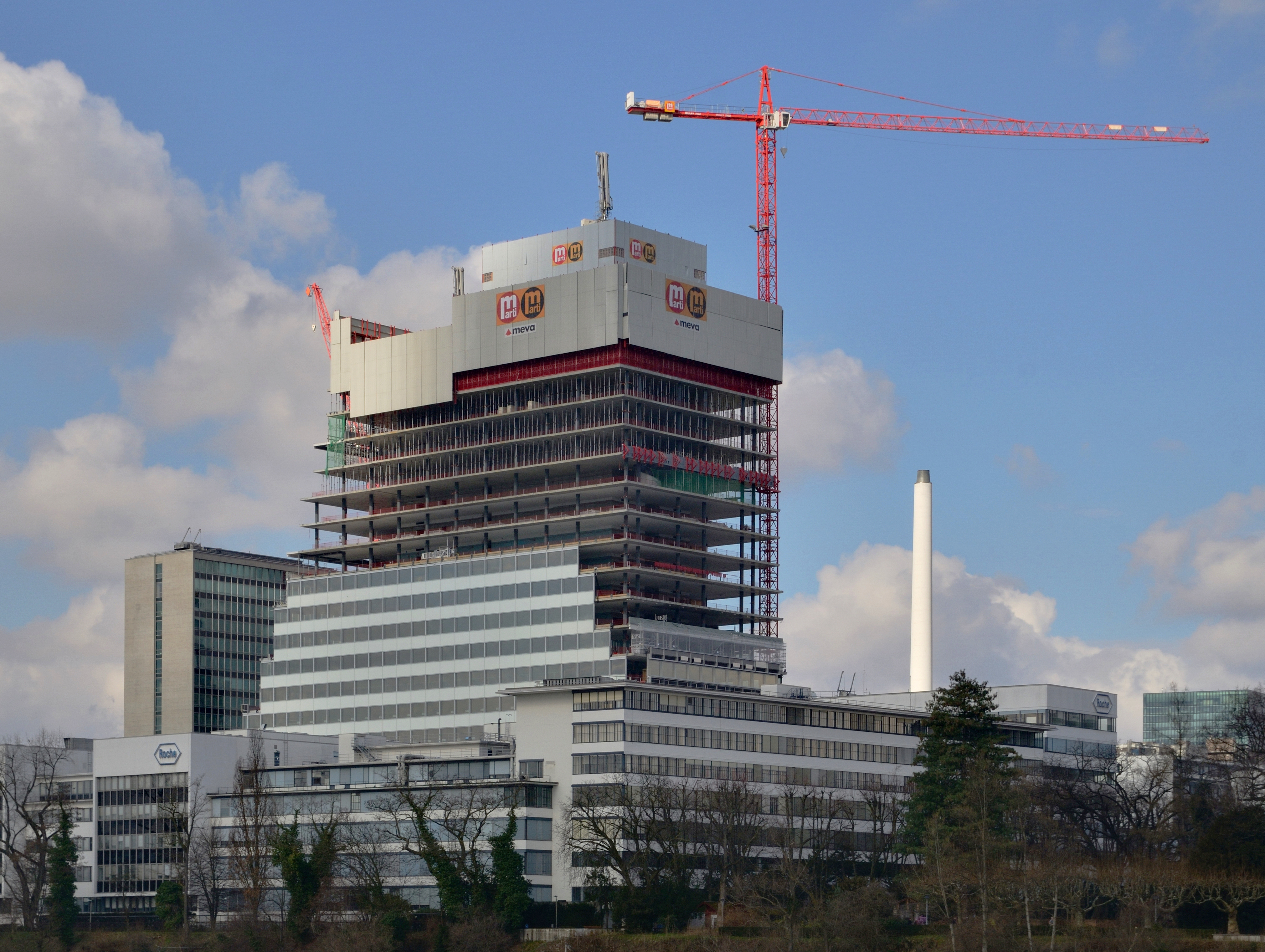 Basel: Roche Tower during construction at 2nd march 2014